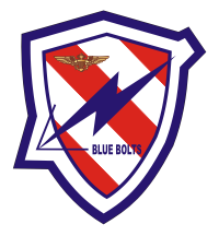 VA-172 Insignia